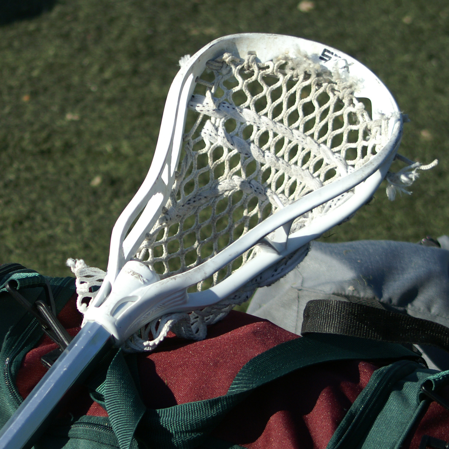 An STX AV8 lacrosse head.